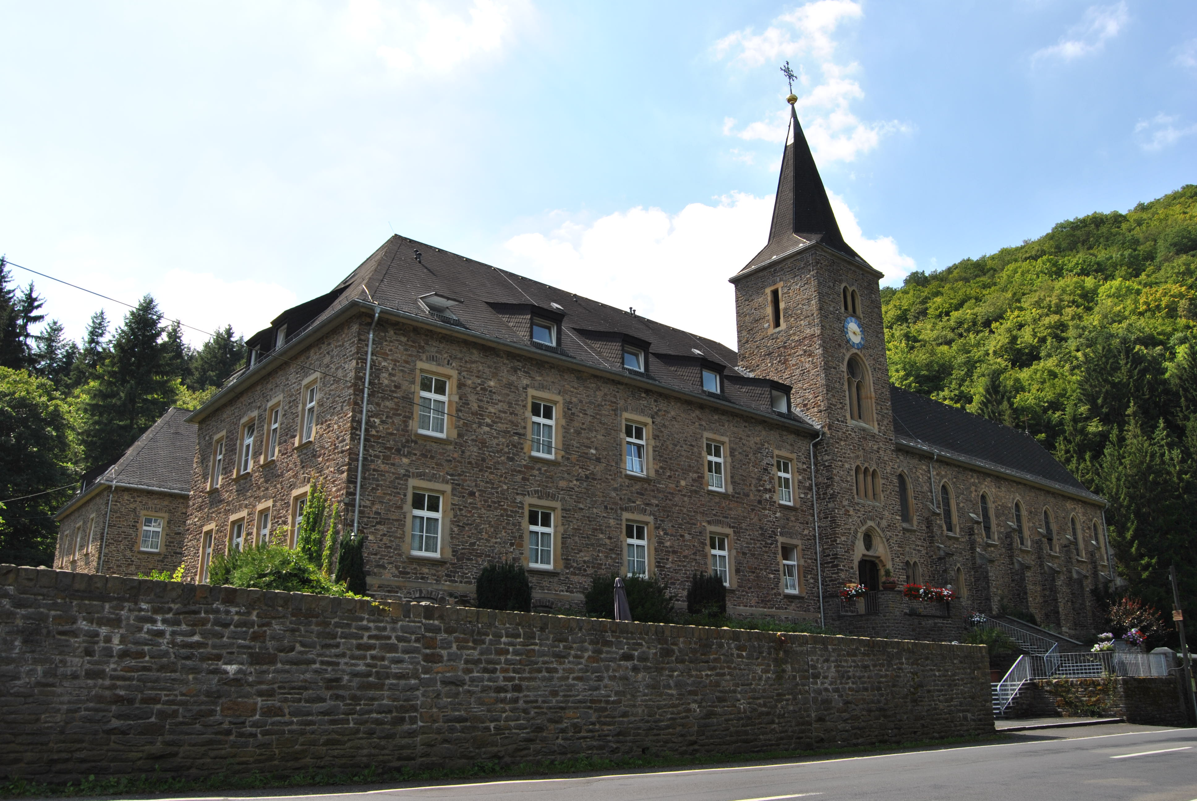 This photograph was taken with a Nikon D3000 This is a photograph of an architectural monument. Treis-Karden, Kloster Maria Engelport